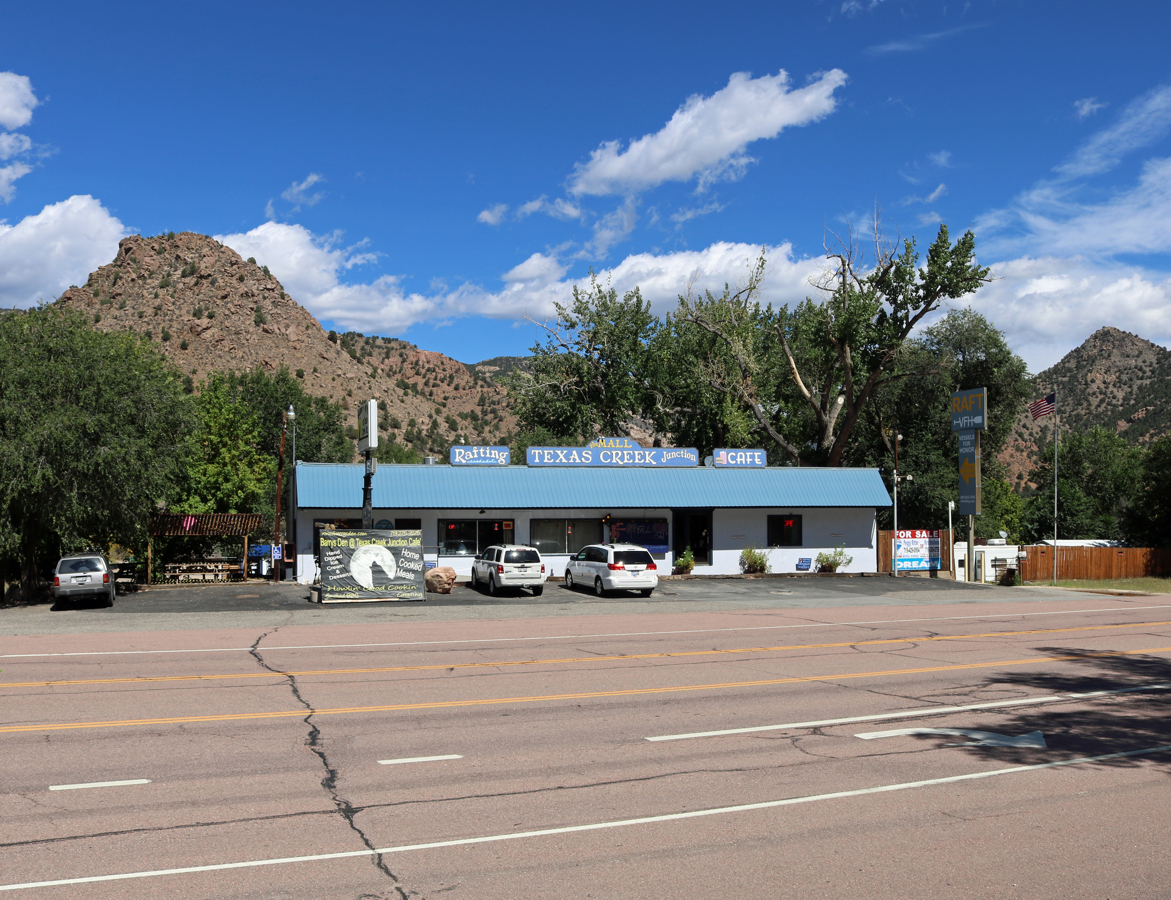 Texas Creek, Colorado, in Fremont County. The highway is U.S. Highway 50. The elevation of the unnamed peak behind the cafe on the left is 6,782 feet (2,067 meters).